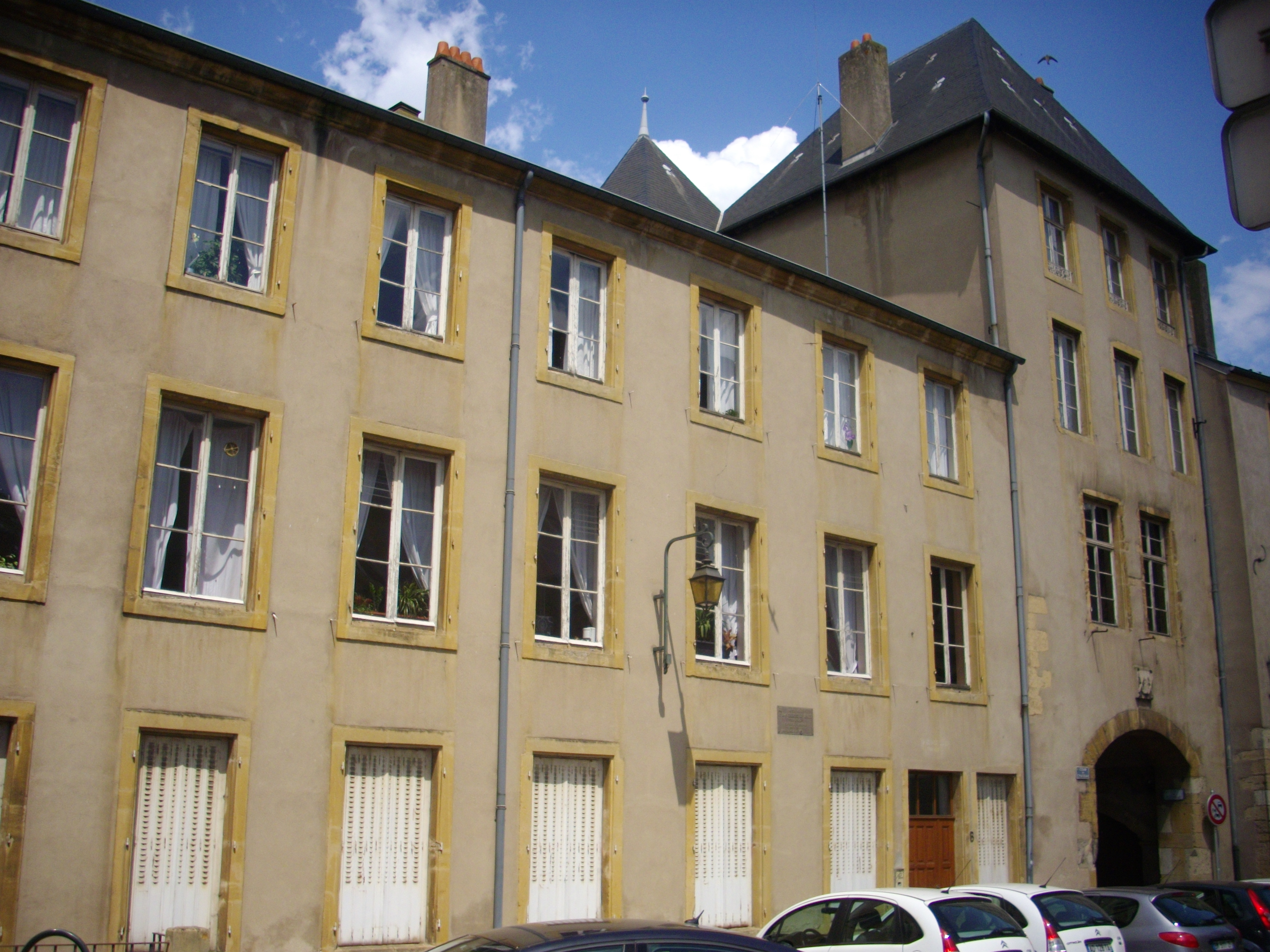 Immeuble, 2 cours du Château (Thionville)Thionville (Moselle, France), birthplace of Aimé-Georges de Lemud (1816-1887)